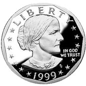 This is a Susan B. Anthony US Dollar Proof Coin.